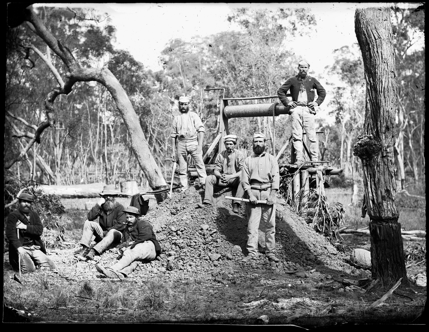 Minehead, goldfields Gulgong, New South Wales, 1872-1873, State Library of New South Wales, ON 4 Box 43 No. 18